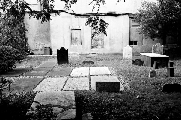 Cemitery in 2010